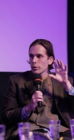 Bruno Decc, 2019, speaks at a panel at the III Arc Film Festival in Mainz, Germany